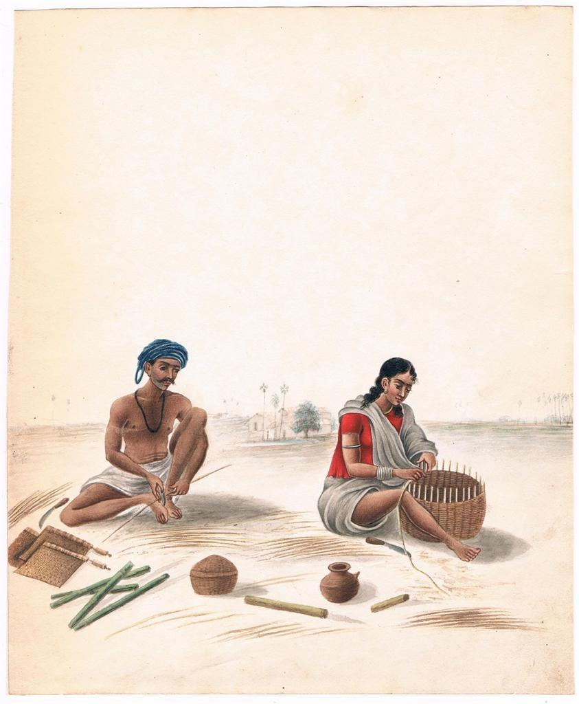 Glassmakers, Patna, 1819, 1824; from a series of Company School watercolors of various trades: also *Hookah Maker*; *Ox Handler*; *Baggage Carrier*; *Grain Seller*; *Treader-out of Grain*; *Basket and Punka Maker*; *Bruiser of grain (making rice)*; *Brick delivery man*; *Metal workers*; *Hot water seller*